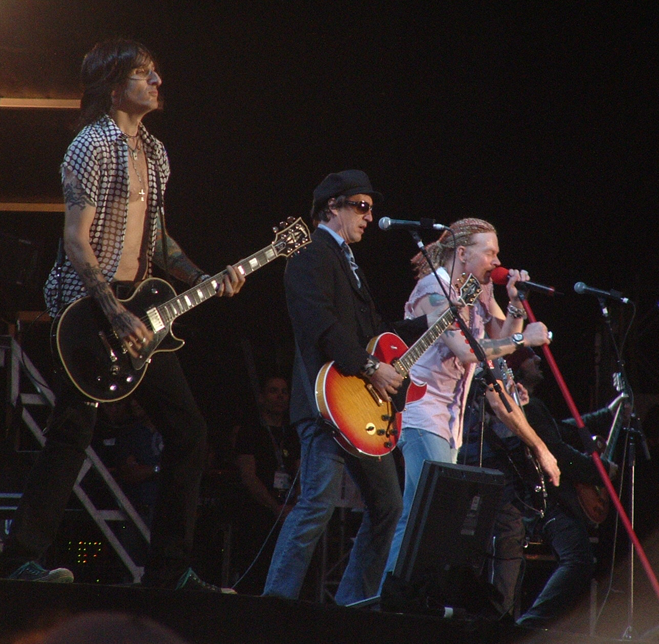 GUNS N' ROSES (Richard Fortus, Izzy Stradlin and Axl Rose)